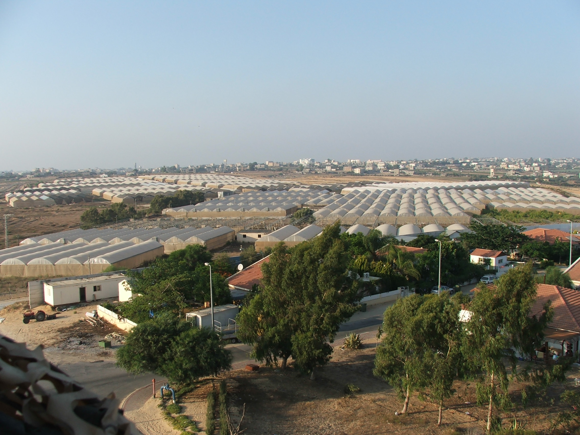 Hothouses and Homes in Morag, Gush Katif